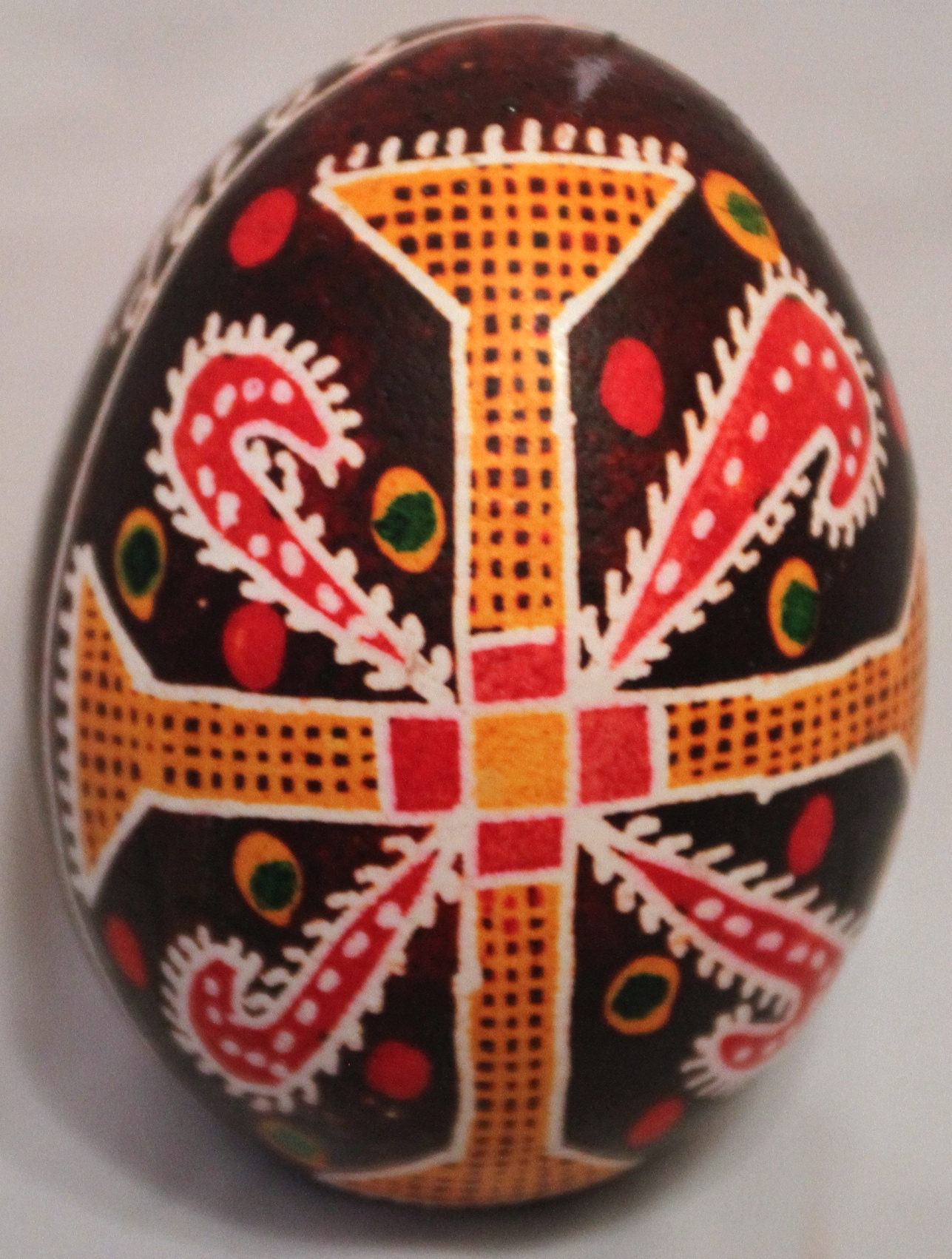 Traditional Ukrainian pysanka from the village of Ilintsi with a swastika (svarha) motif